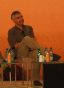 French journalist Daniel Schneidermann in 2008.